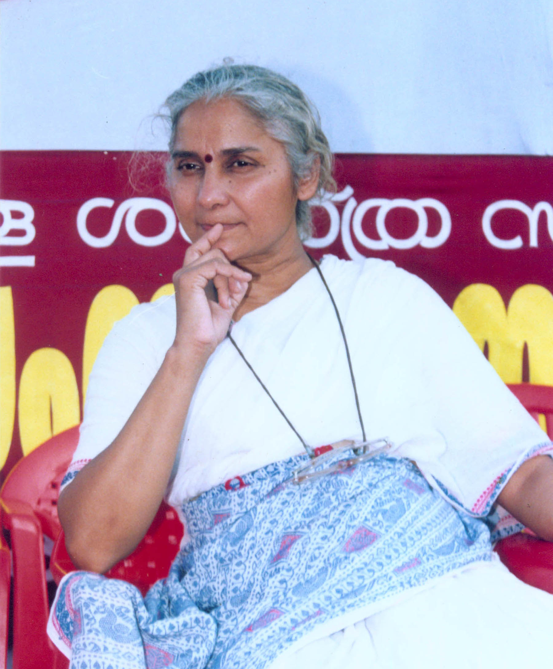 Medha Patkar in Sasthamkotta